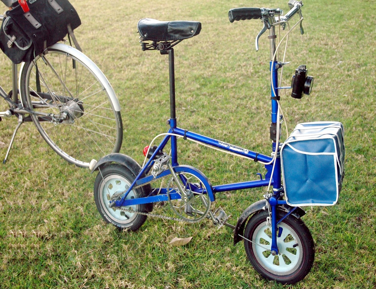 1960s Bootie Folding Bicycle may be exceptionally small but it weighs over 17 kg, as much as the contemporary light roadsters.